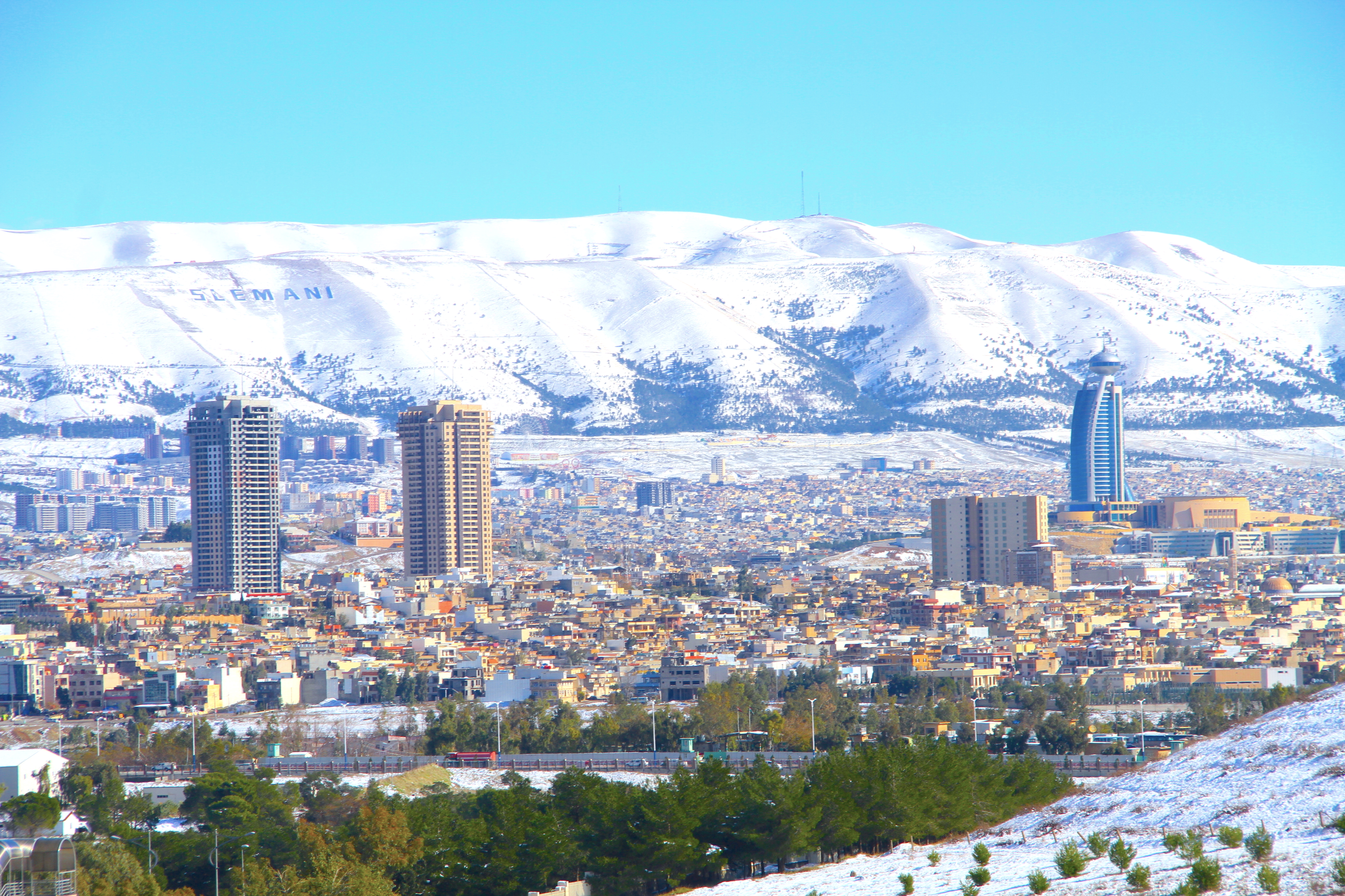 View of Sulaymaniyah (Slemani) City in Winter Snow